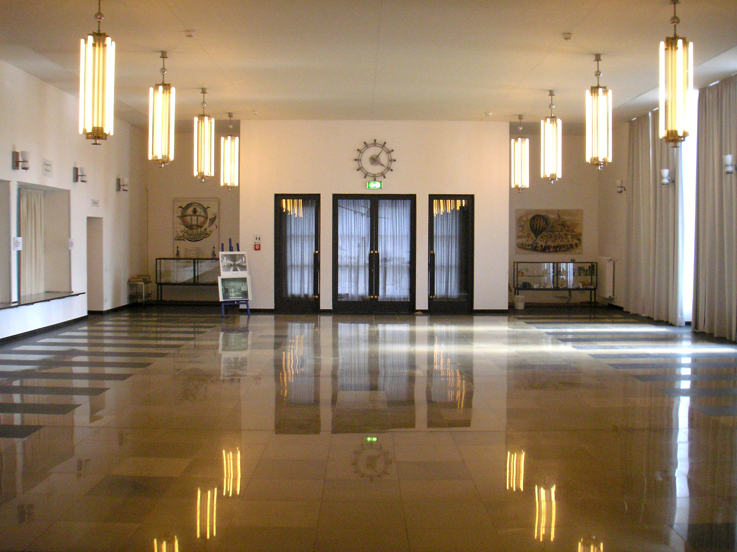 Lobby of the airport Butzweiler Hof, Cologne